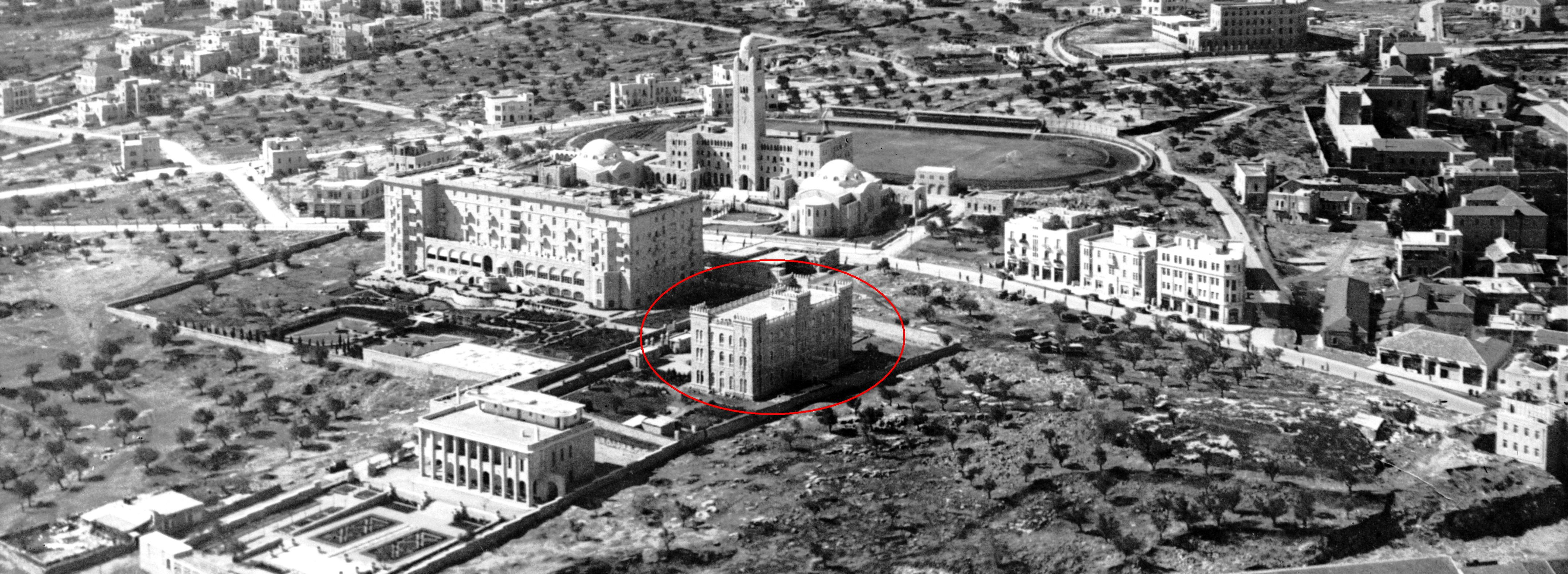 Air views of Palestine. Jerusalem from the air. Newer Jerusalem. Y.M.C.A. and King David Hotel. Looking southwest with French consulate general and the Jesuit seminary